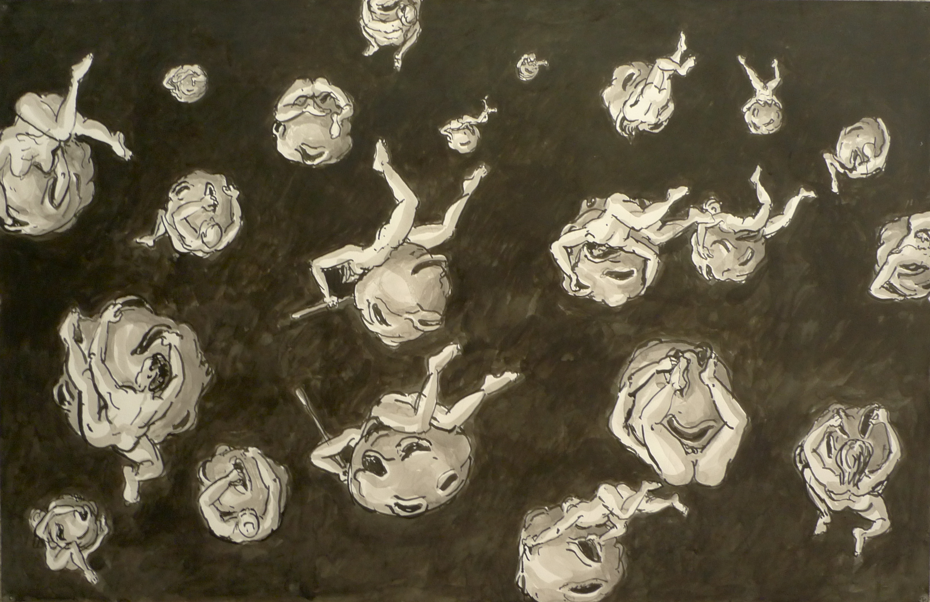 Thomas Bernstein, Everyone for himself and God..., 70 cm x 106 cm, Gouache, 2011